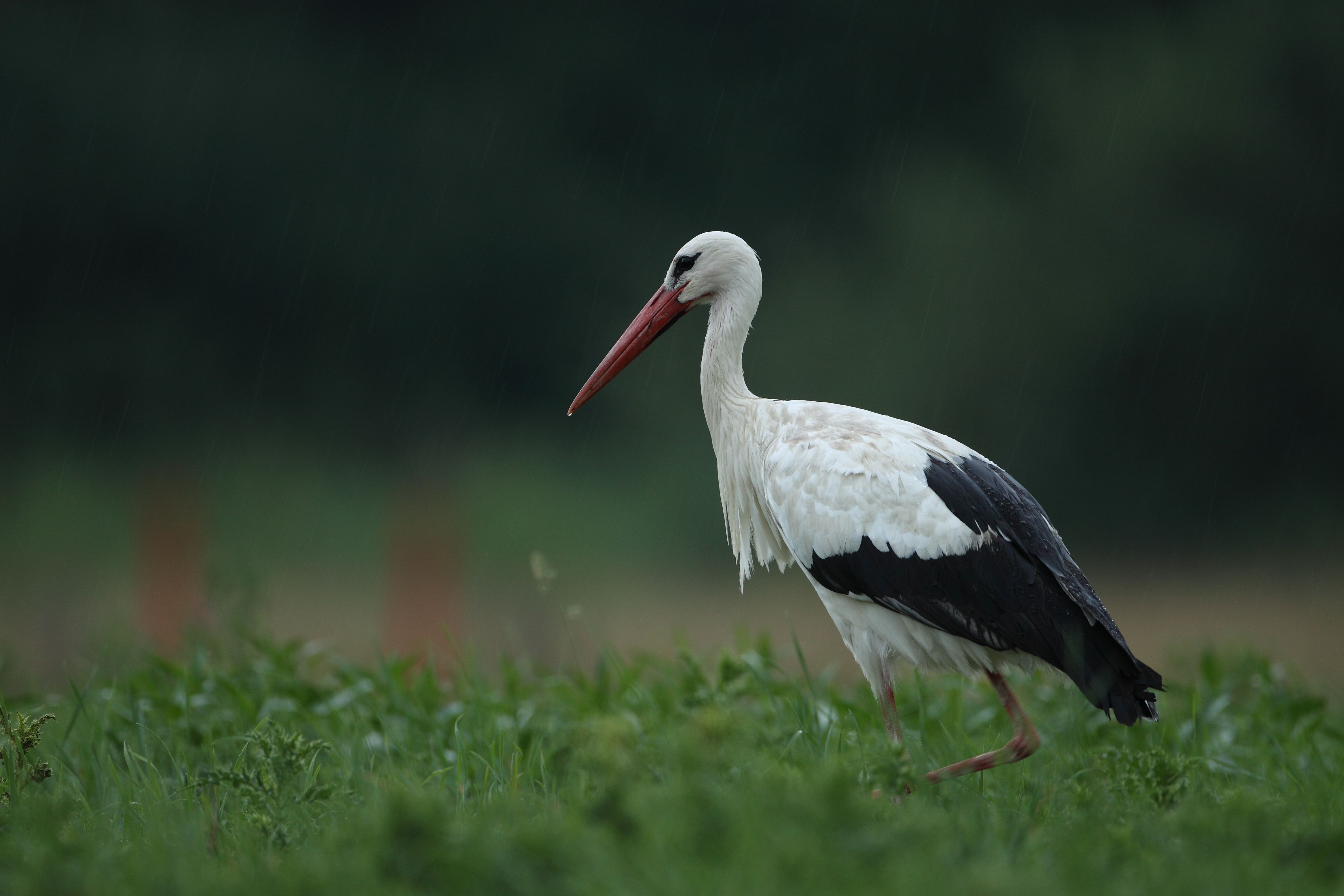 White Stork български: Бял щъркел brezhoneg: C'hwibon wenn català: Cigonya blanca čeština: Čáp bílý kaszëbsczi: Biôłi bòcón dansk: Hvid stork